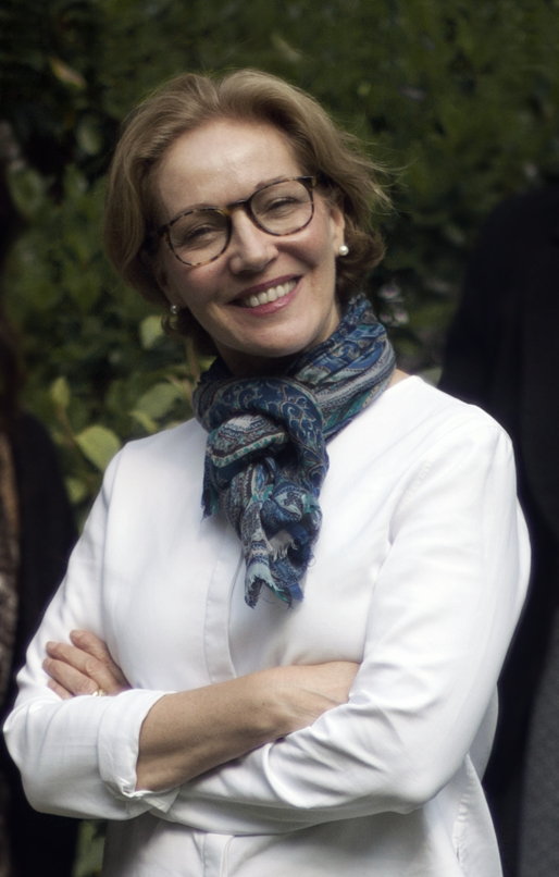 Picture of Shea Gopaul